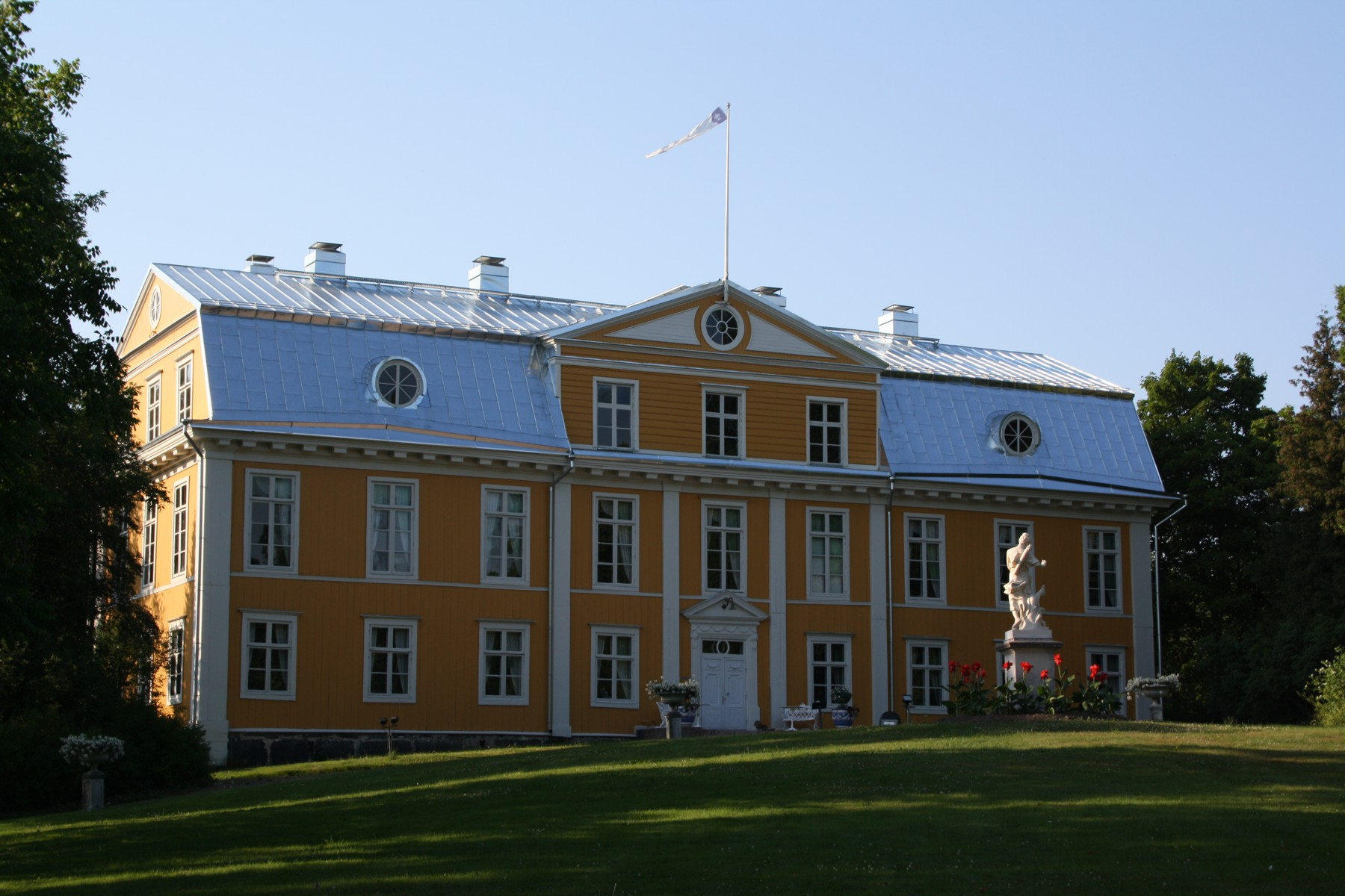 Svartå manor in Raseborg, Finland